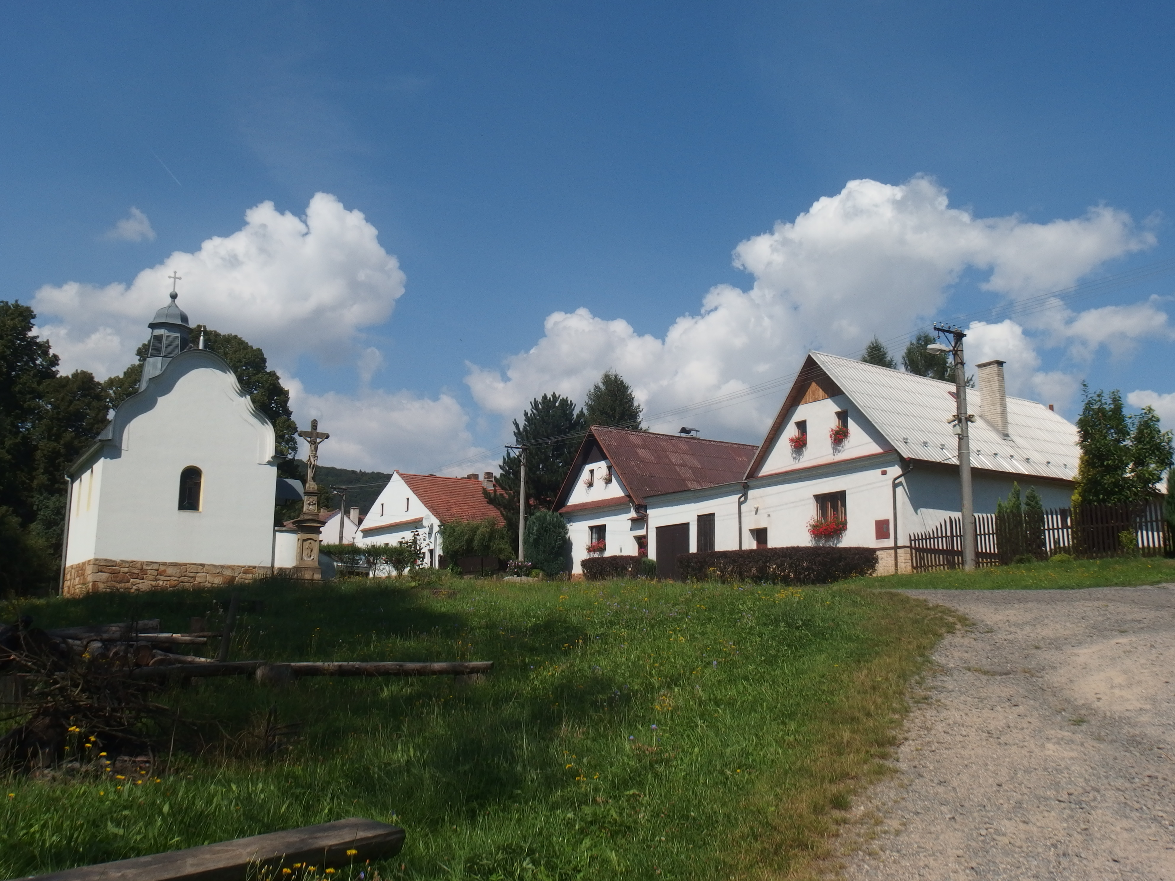 Městečko Trnávka, Svitavy District, Czech Republic, part Ludvíkov.